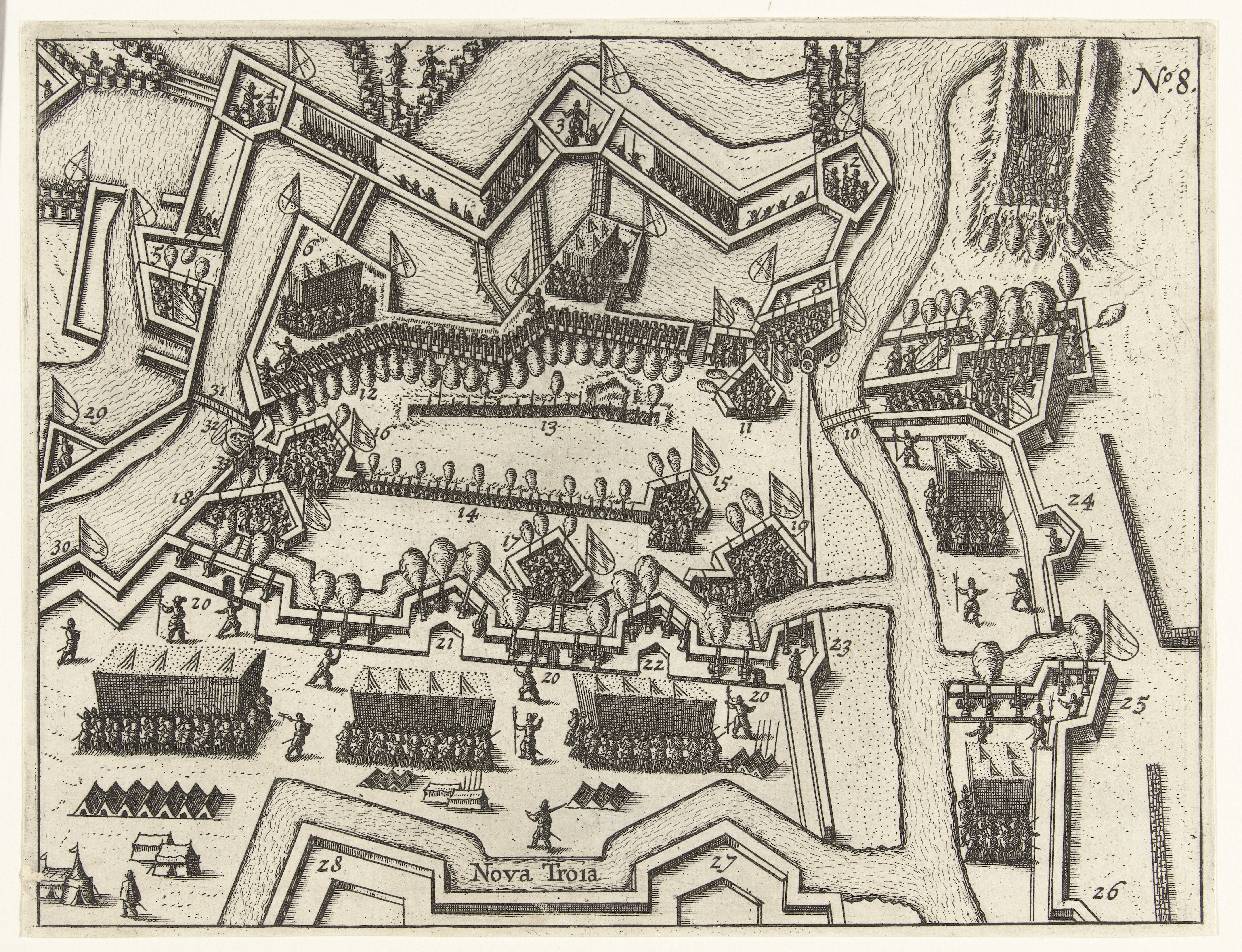 Siege of Ostend: the entrenchments and the New Troy, 1604